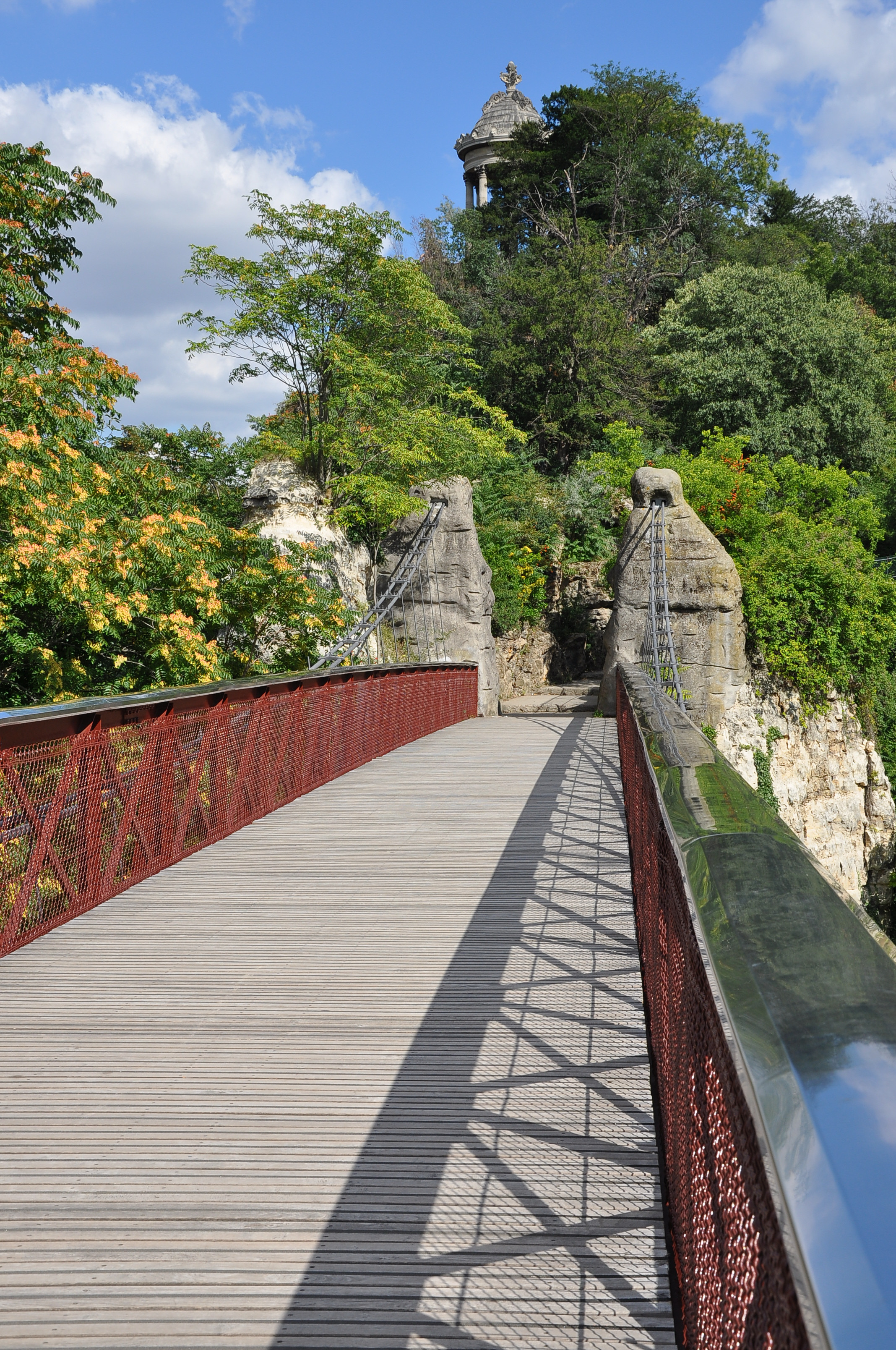 Suspended footbridge at Buttes Chaumont Garden in the 19th district of Paris.